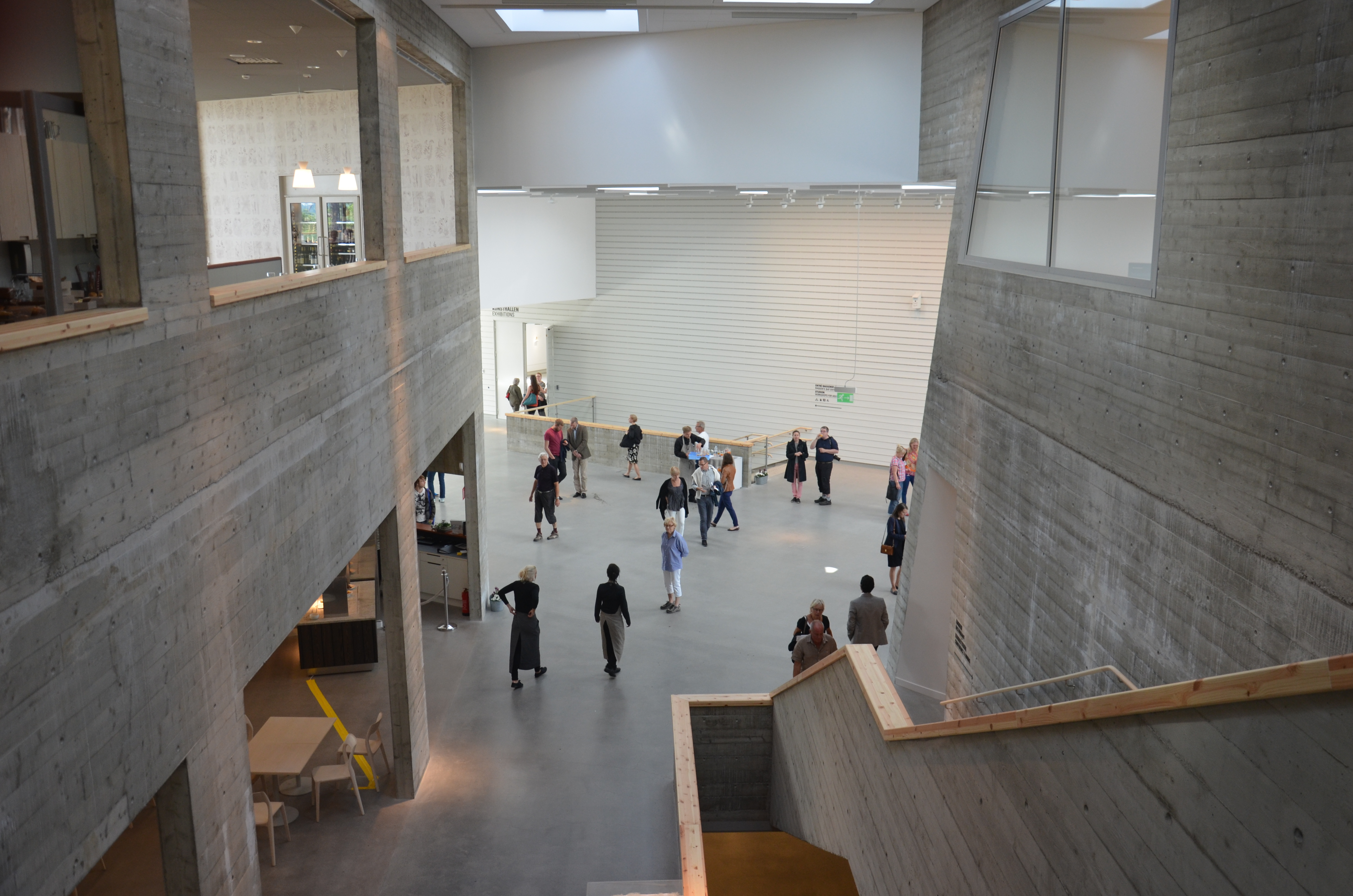 Entréhallen från andra våningen, konsthallen Artipelag i Gustavsberg